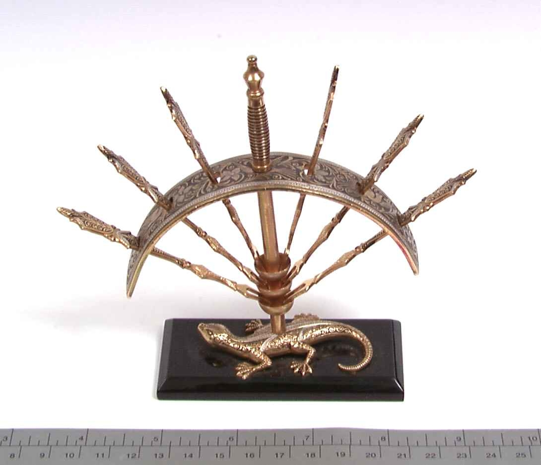 Photograph of six golden-coloured Norwegian date forks, inserted in to a rack featuring an ornamental lizard figurine.